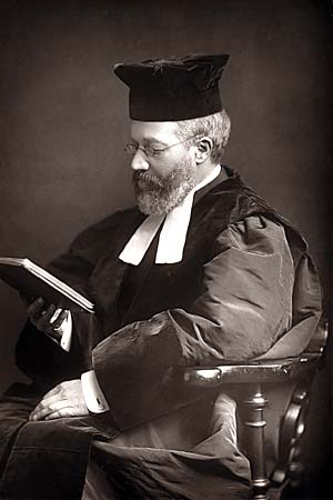 Hermann Adler (May 30, 1839 – July 18, 1911), German-born Chief Rabbi of the British Empire